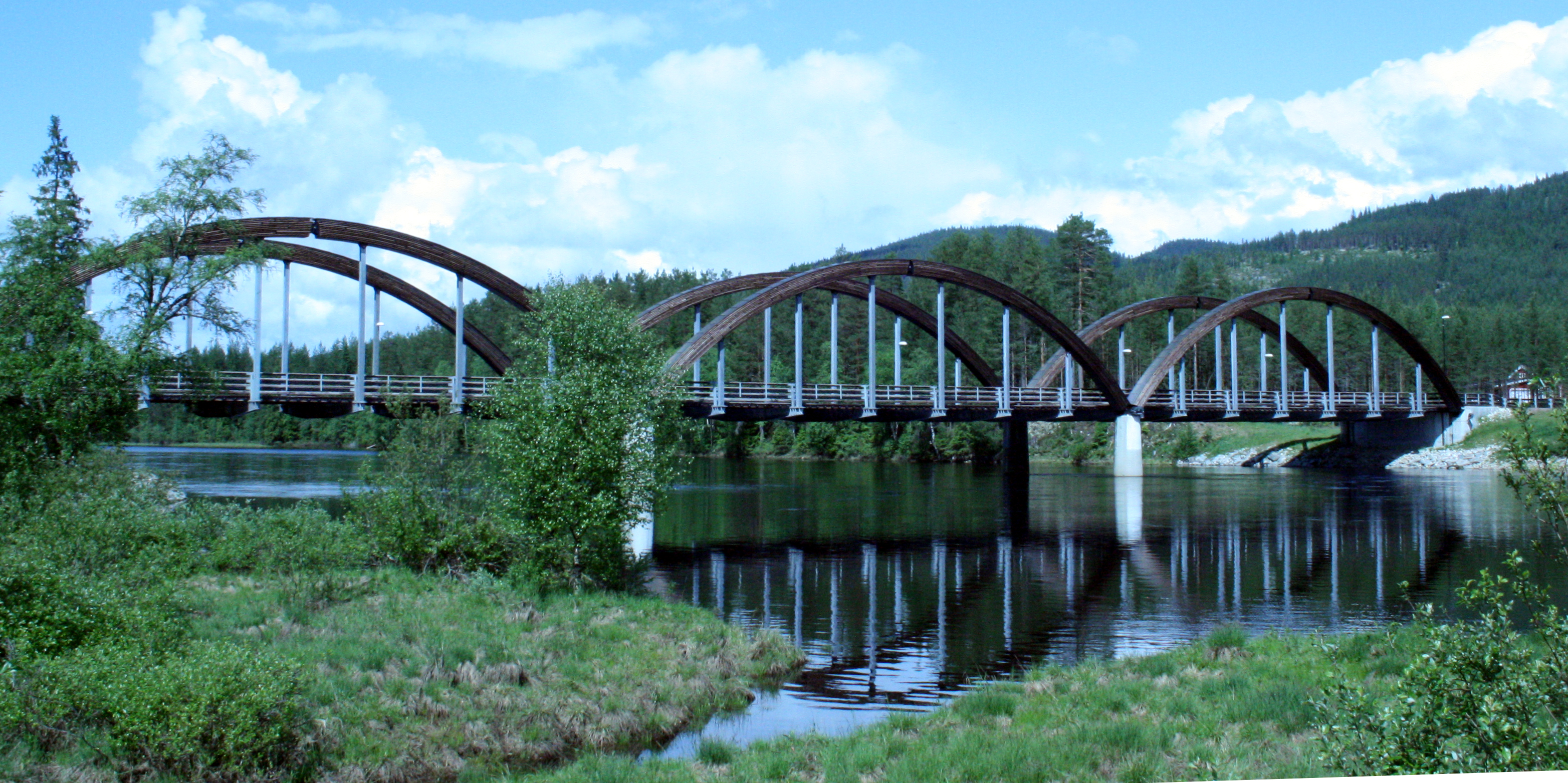 Nybergsund Brigde Wood